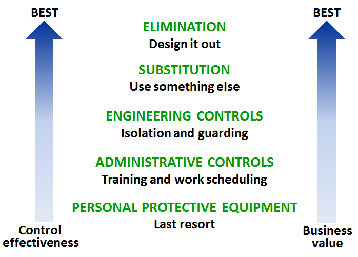 Hierarchy of hazard controls in occupational health, with brief descriptions.